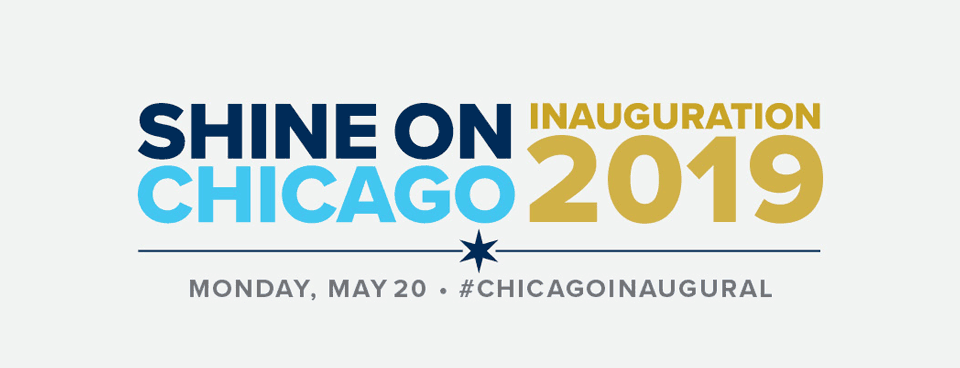 Lori Lightfoot